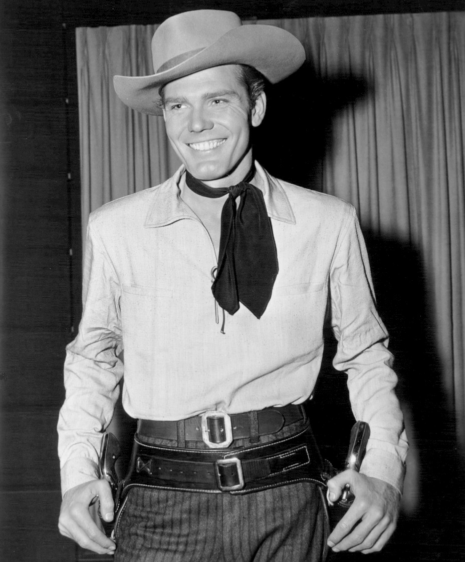 Photo of actor Donald May as Sam Colt, Jr. from the television series Colt .45. The photo has no copyright markings on it as can be seen in the links above.